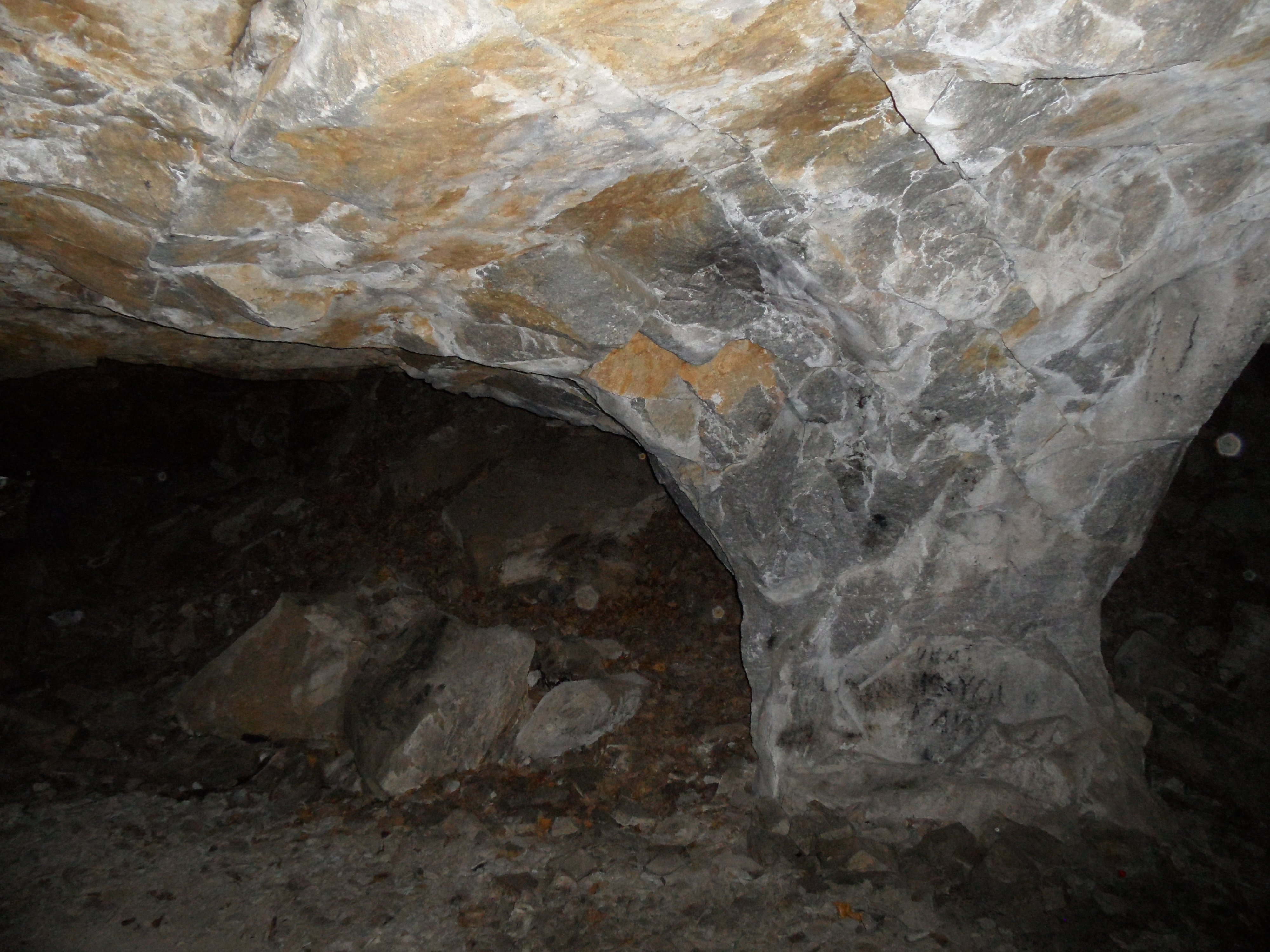 Medenický potok J2. Part of the Cave on the Right Side with Pillar, Kutná Hora District, the Czech Republic.